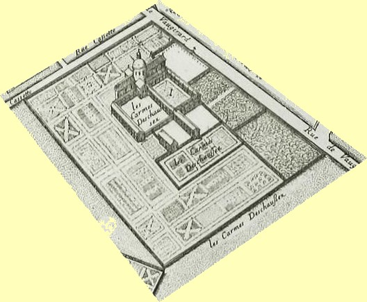 Les Carmes déchaussés de la rue de Vaugirard, extrait du plan de Bullet et Blondel, 1676, modifié